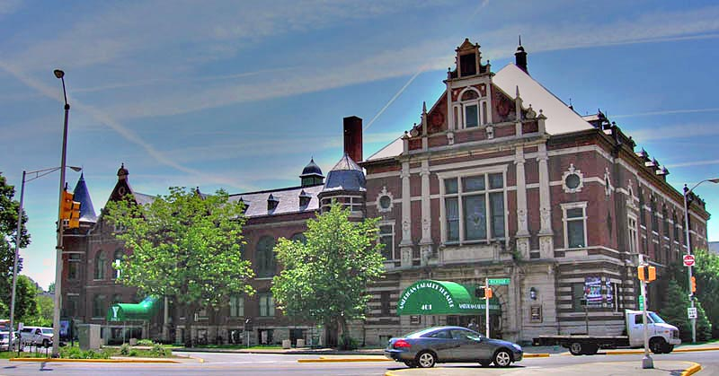 The former German-American House in Indianapolis, Indiana.